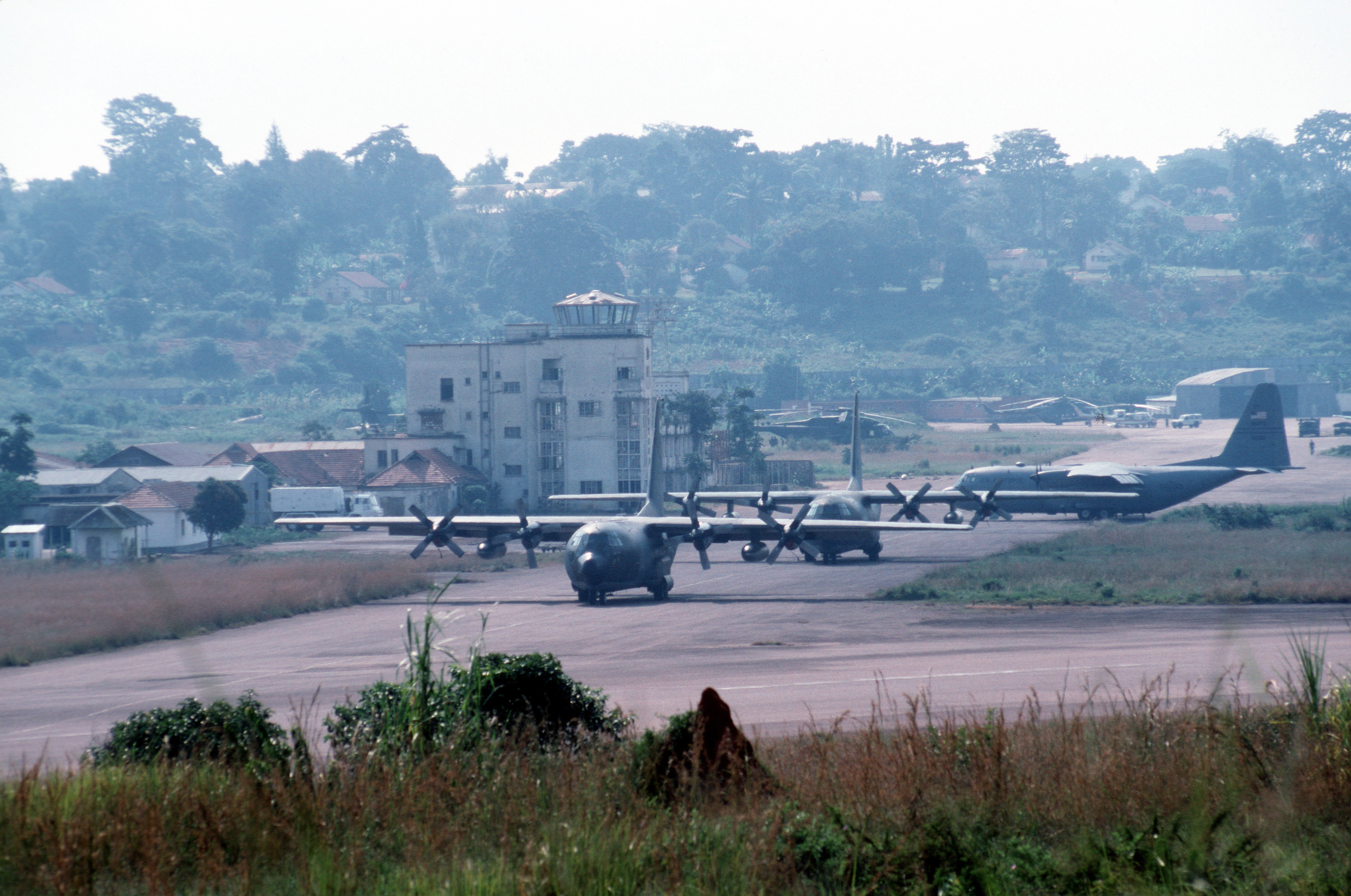 Three USAF C-130 Hercules aircraft are parked in front of the empty "Raid on Entebbe" terminal. The building is still pockmarked from the infamous 1976 Israeli rescue operations. From Airman Magazine's December 1994 issue article "Will You Please Pray for Us?" -Relief for Rwandan Refugees.